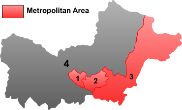 Map of Qitaihe prefecture in Heilongjiang.